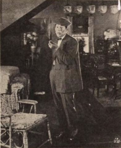 Still from the American drama film Bits of Life (1921) with Lon Chaney, on page 37 of the August 20, 1921 Exhibitors Herald.